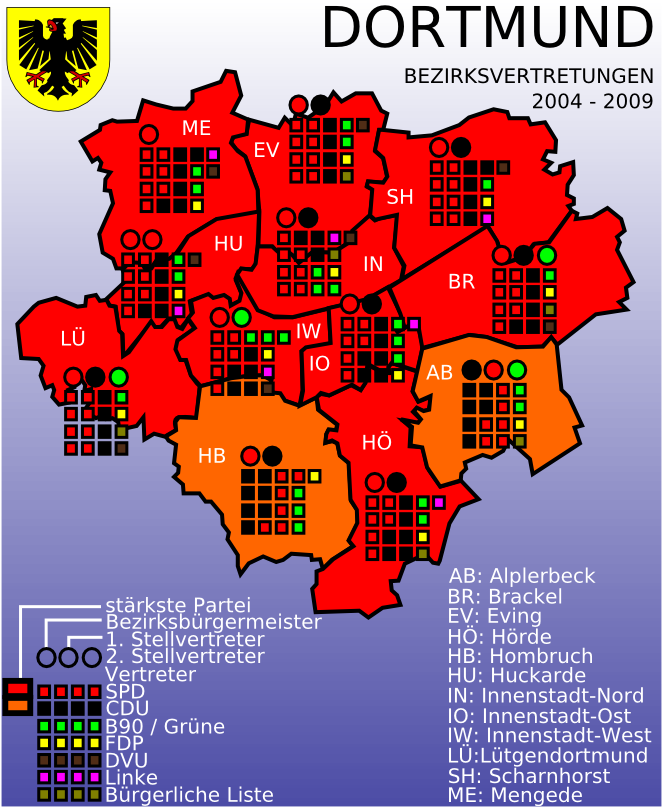 district mayors of the city of Dortmund 2004 - 2009